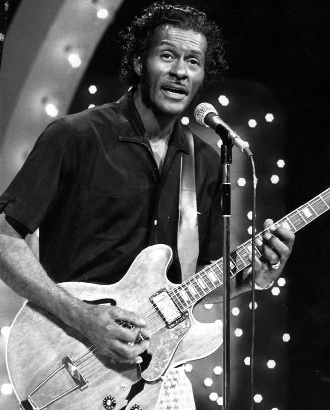 Photo of Chuck Berry on the television program The Midnight Special.